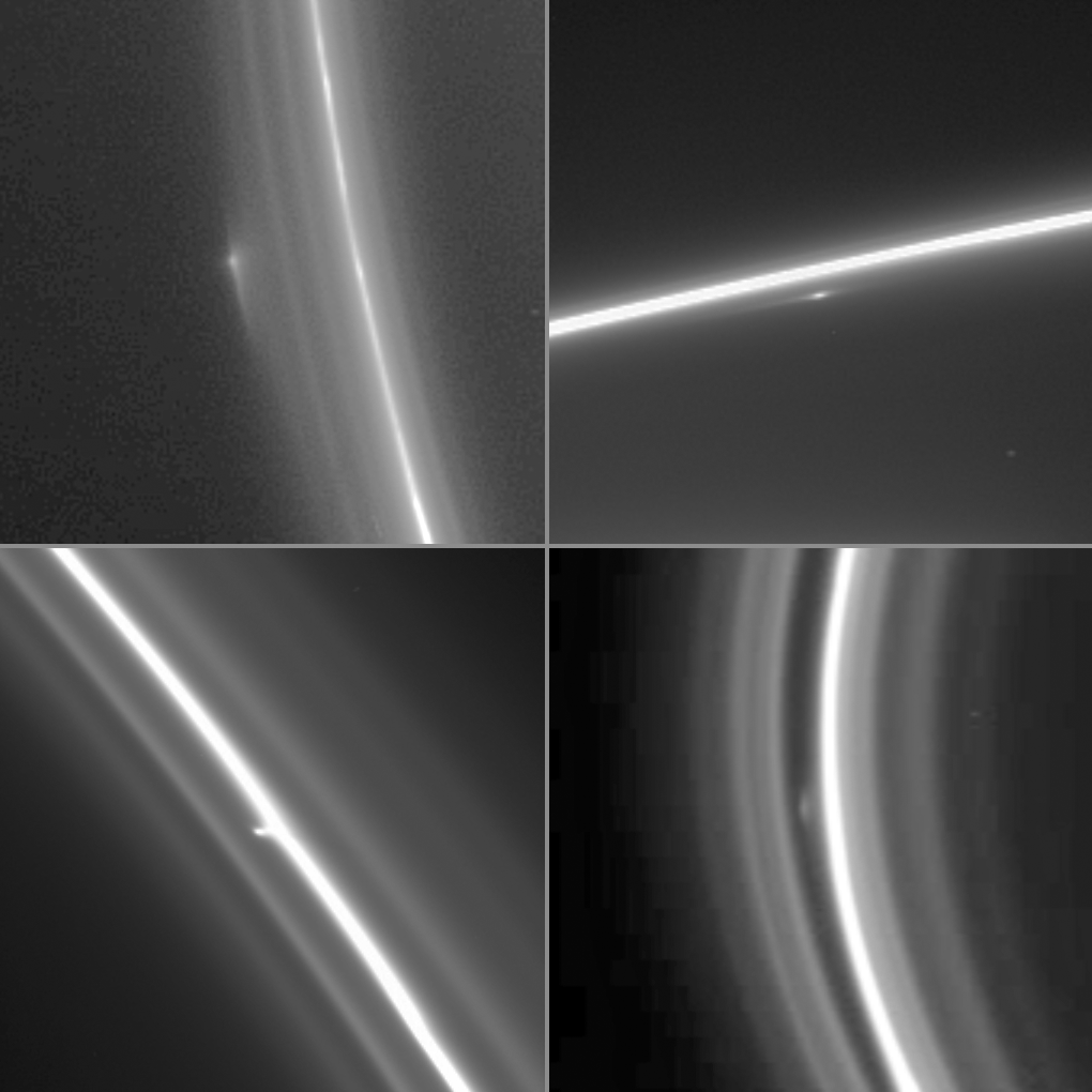 This montage of four enhanced Cassini narrow-angle camera images shows bright clump-like features at different locations within the F ring.